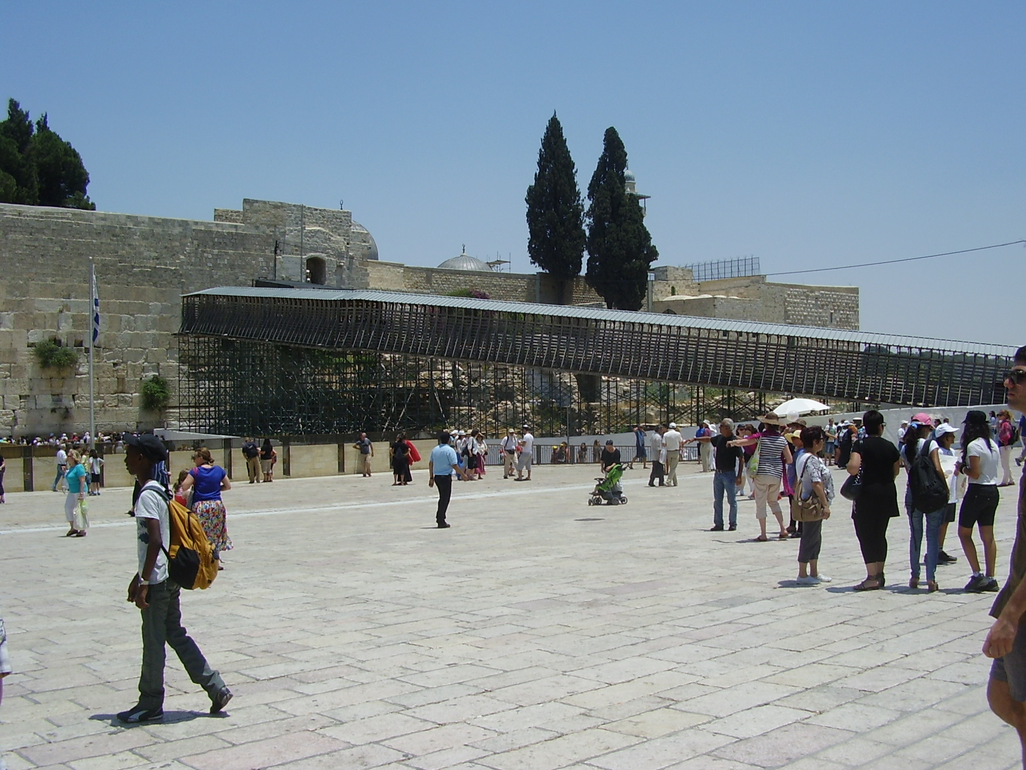 Jerusalem Mughrabi Gate Bridge